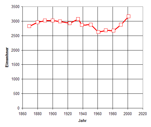 Number of Semriach inhabitants dependent on year